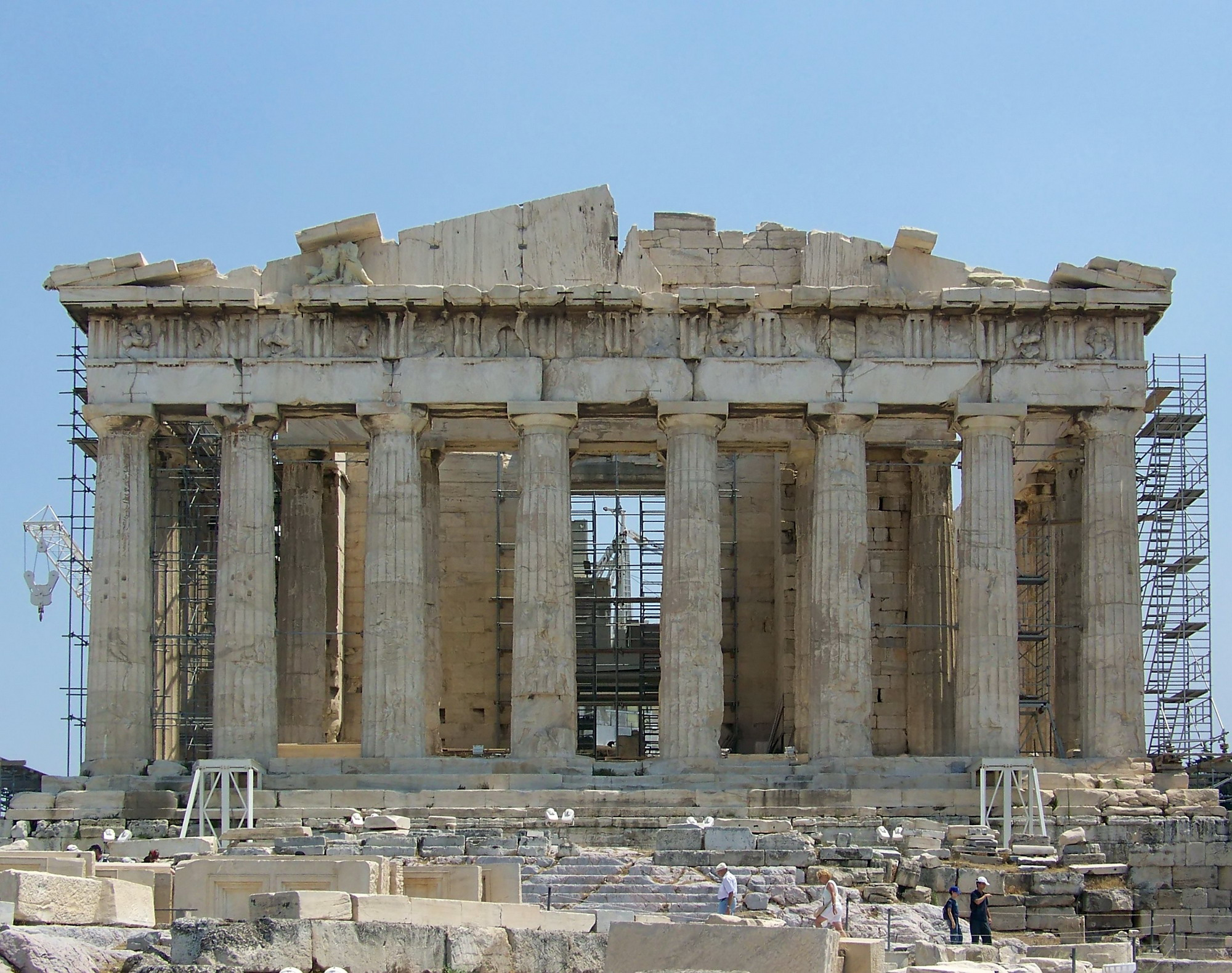 Western facade of the Parthenon during its restoration, Acropolis of Athens, Greece.